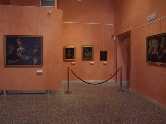 Pinacoteca Reggio